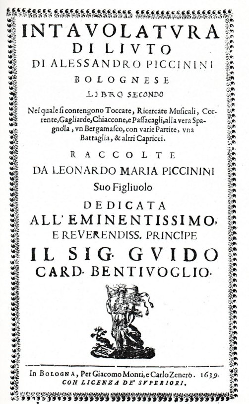 Cover of 2nd book of lute tabulature by Alessandro Piccinini.